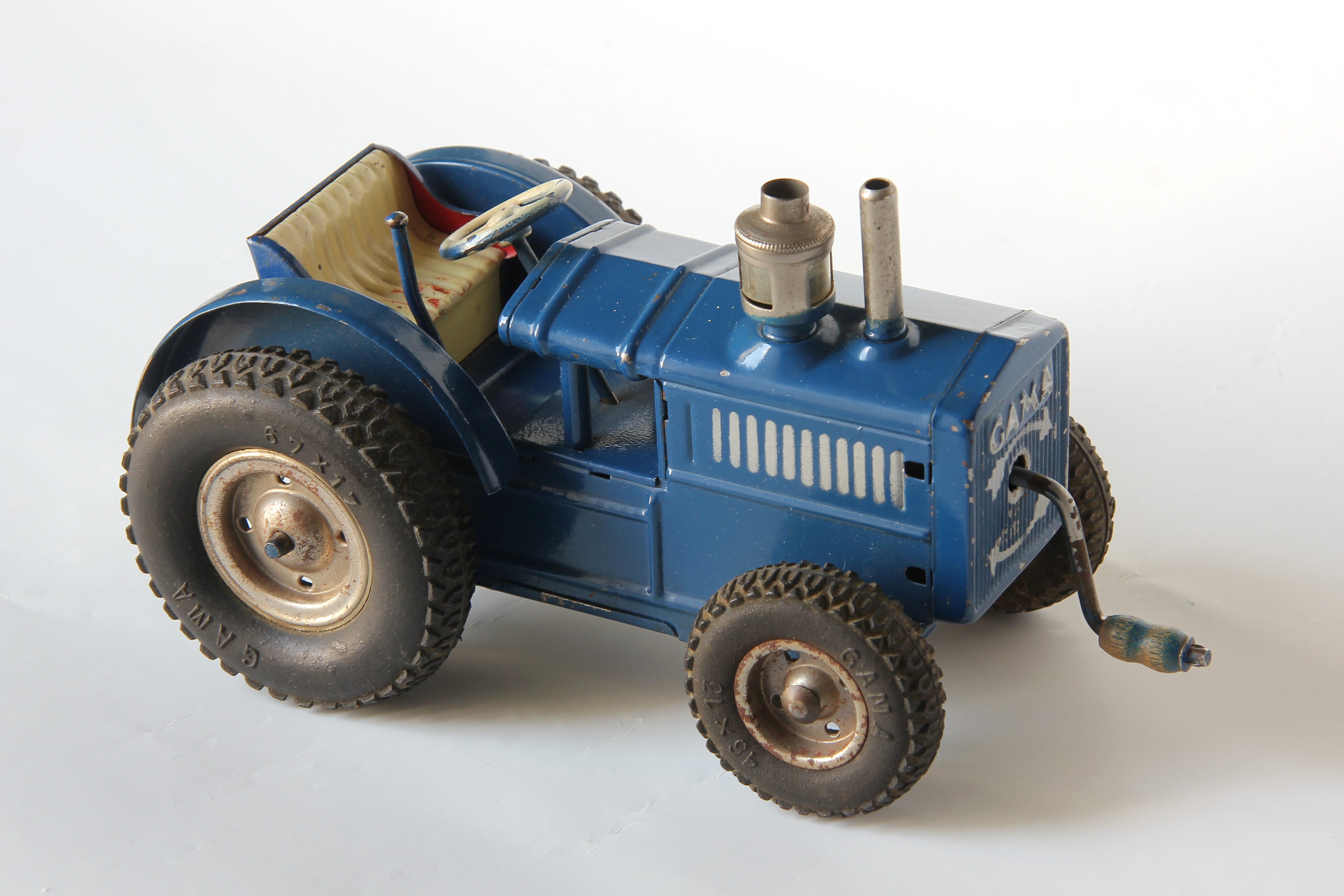 Tin toy tractor made by GAMA, Nürnberg, about 1950 to 1955; crank to wind up the clock work